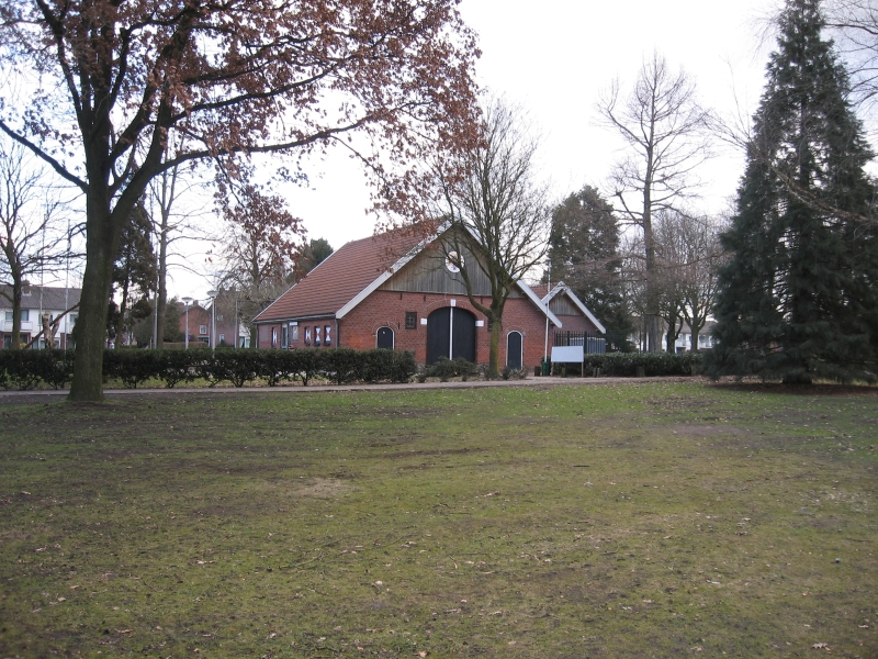 Former Stakenboer farm in the former hamlet of Berghuizen, nowadays in the Zuid-Berghuizen quarter of Oldenzaal, Overijssel, The Netherlands